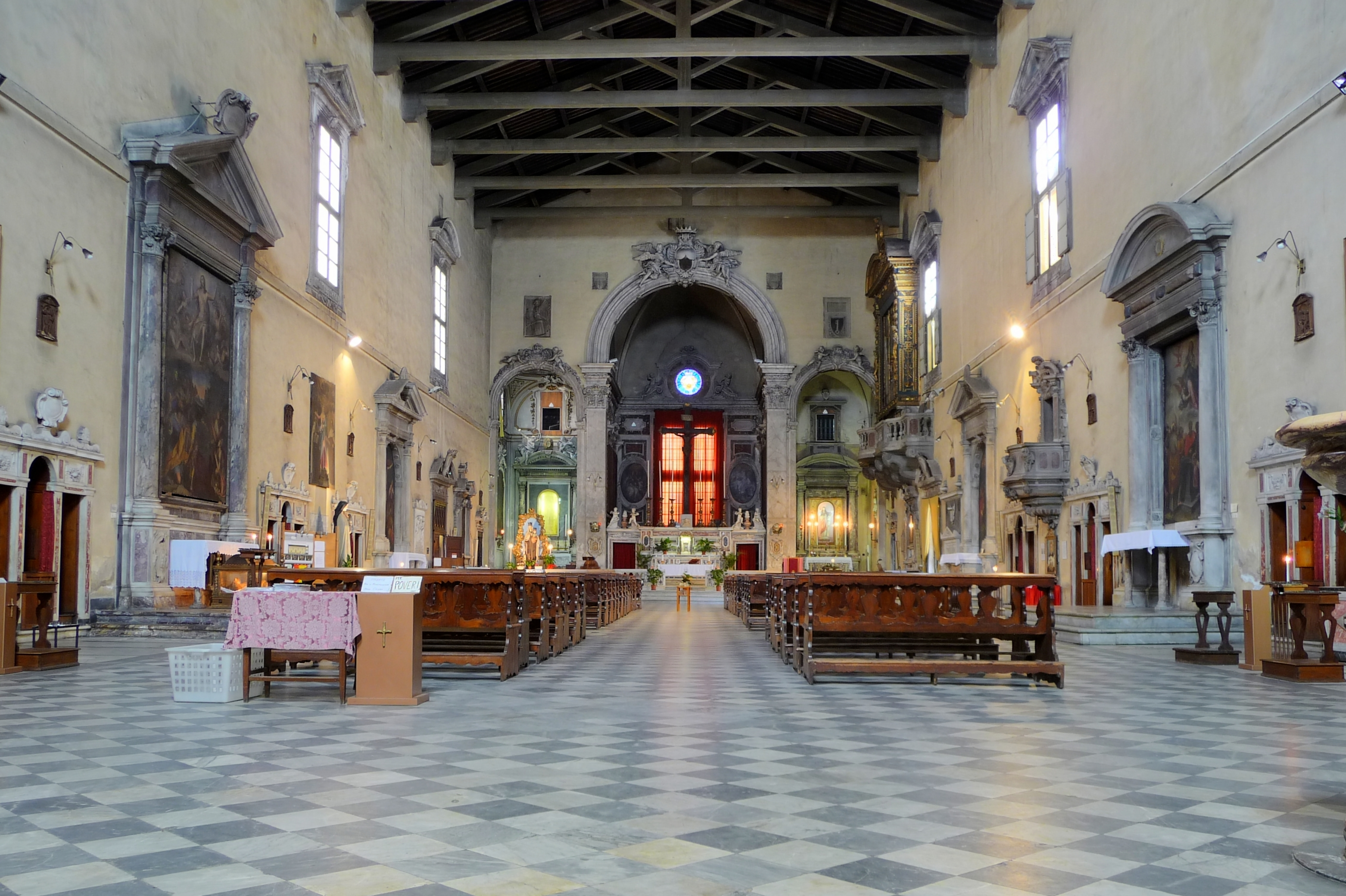 Church "Chiesa Santa Maria del Carmine", Pisa, Italy